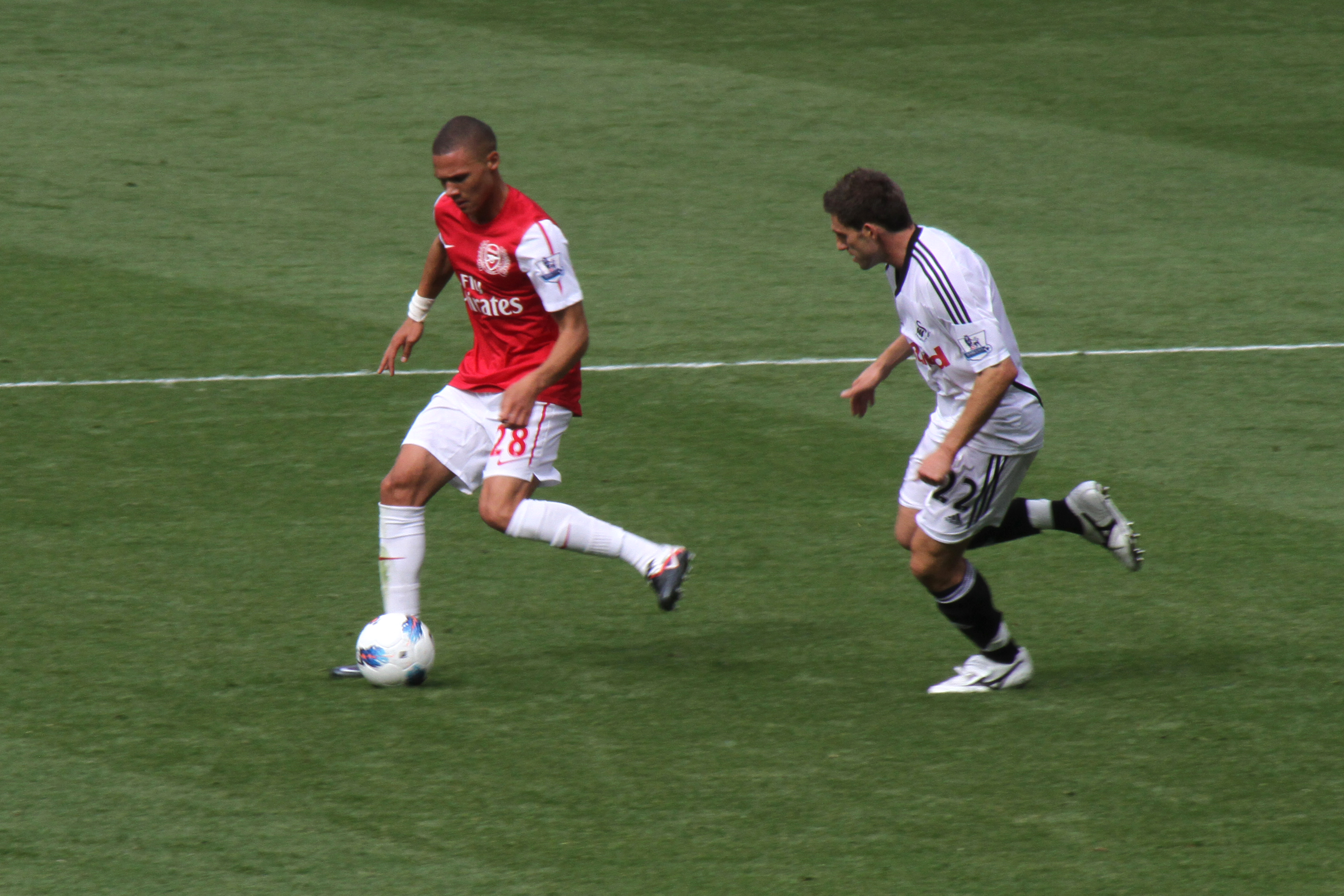 Kieran Gibbs of Arsenal defended by Angel Rangel of Swansea.